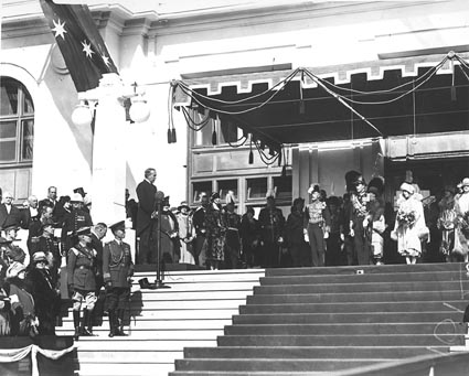 Prime Minister Stanley Melbourne Bruce speaking at the opening of the first Parliament House, Canberra on 9 May 1927, with the Duke and Duchess of York at the head of the stairs.